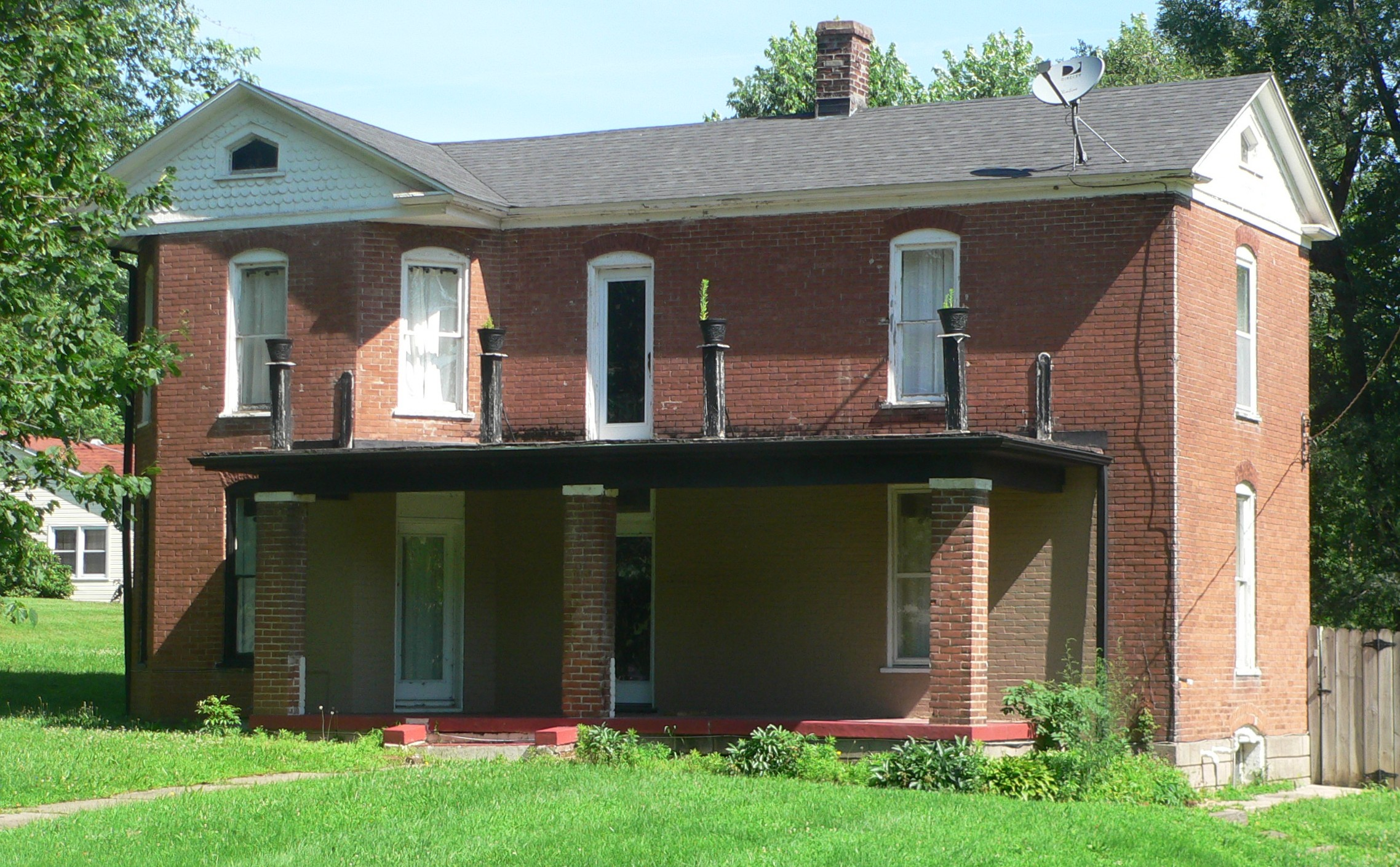 Roeschel-Toennes-Oswald property, located at northeast corner of Santa Fe Trail and West End Drive; faces Santa Fe Tr. View is from the south-southeast, looking obliquely across Santa Fe Trail.